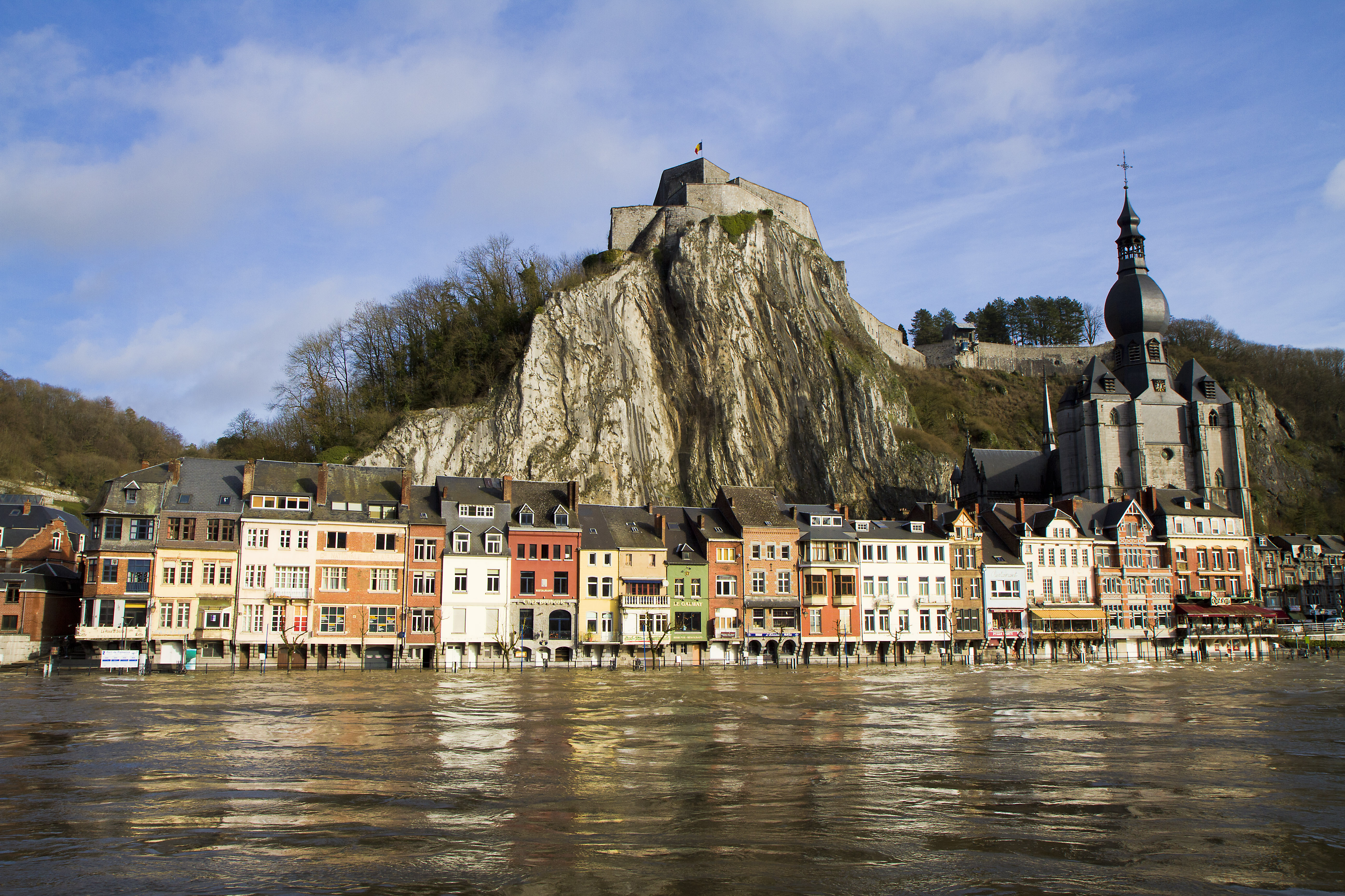 Dinant, Belgium.